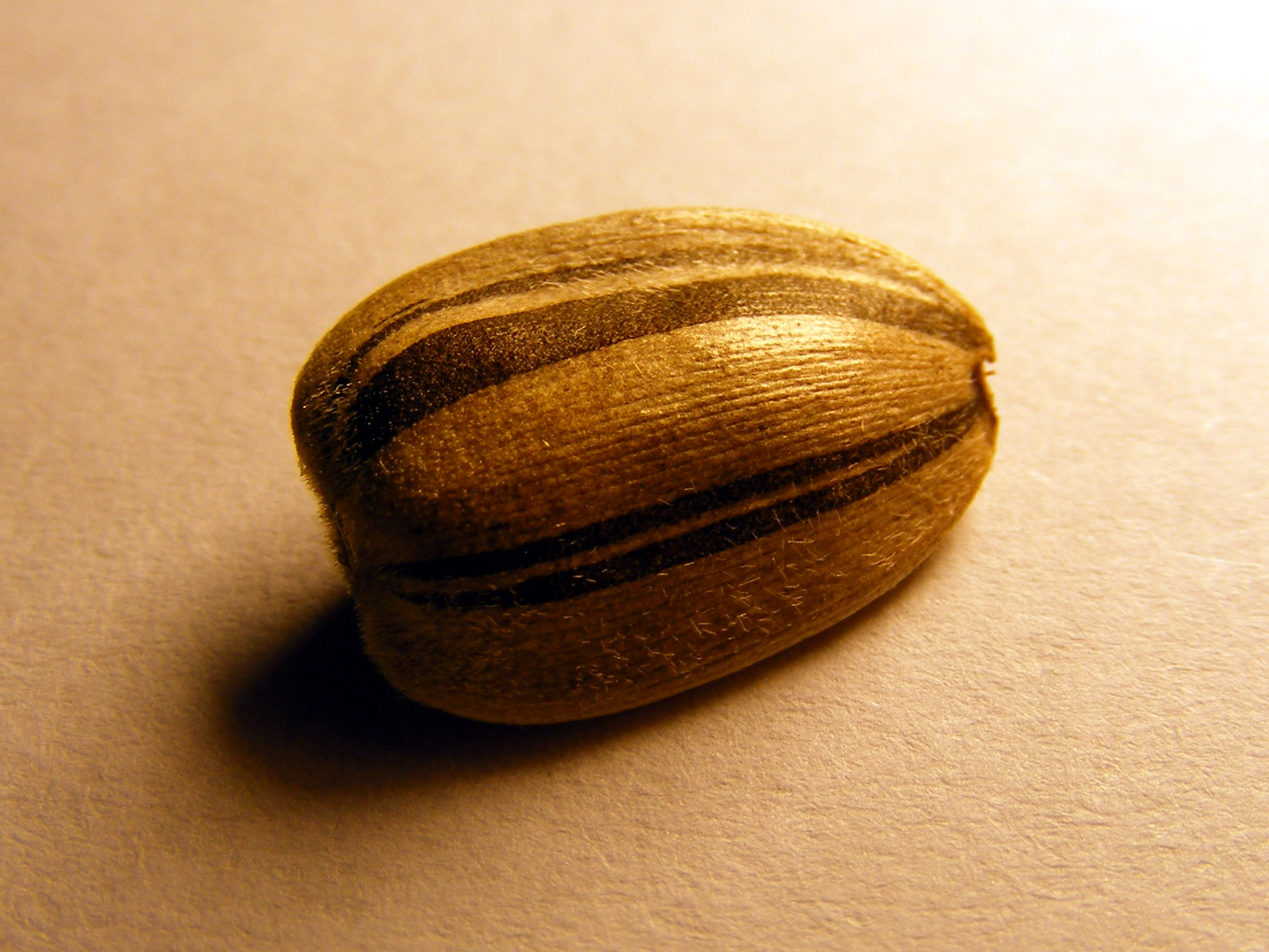 A super micro image of a 1.3 centimeter long striped sunflower seed.